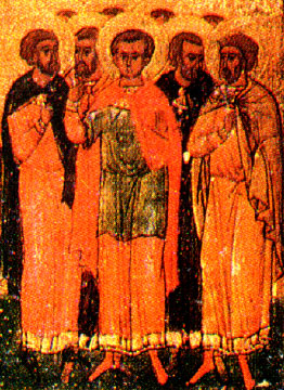 Ancient icon of martyred companions